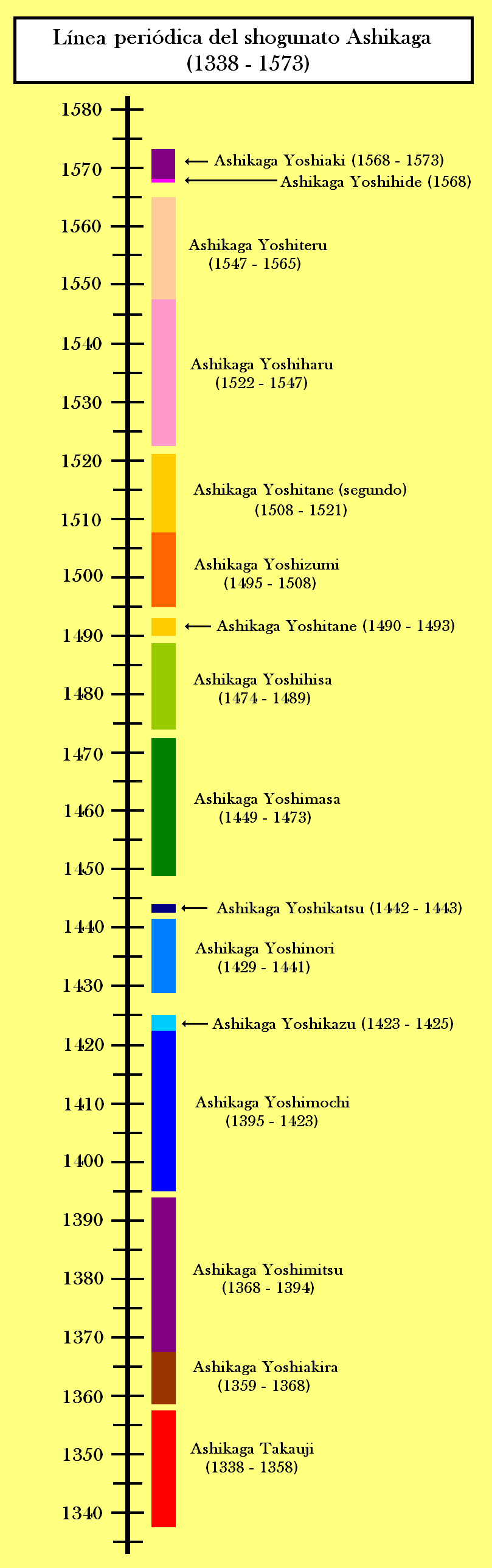 Timeline of the Ashikaga shogunate